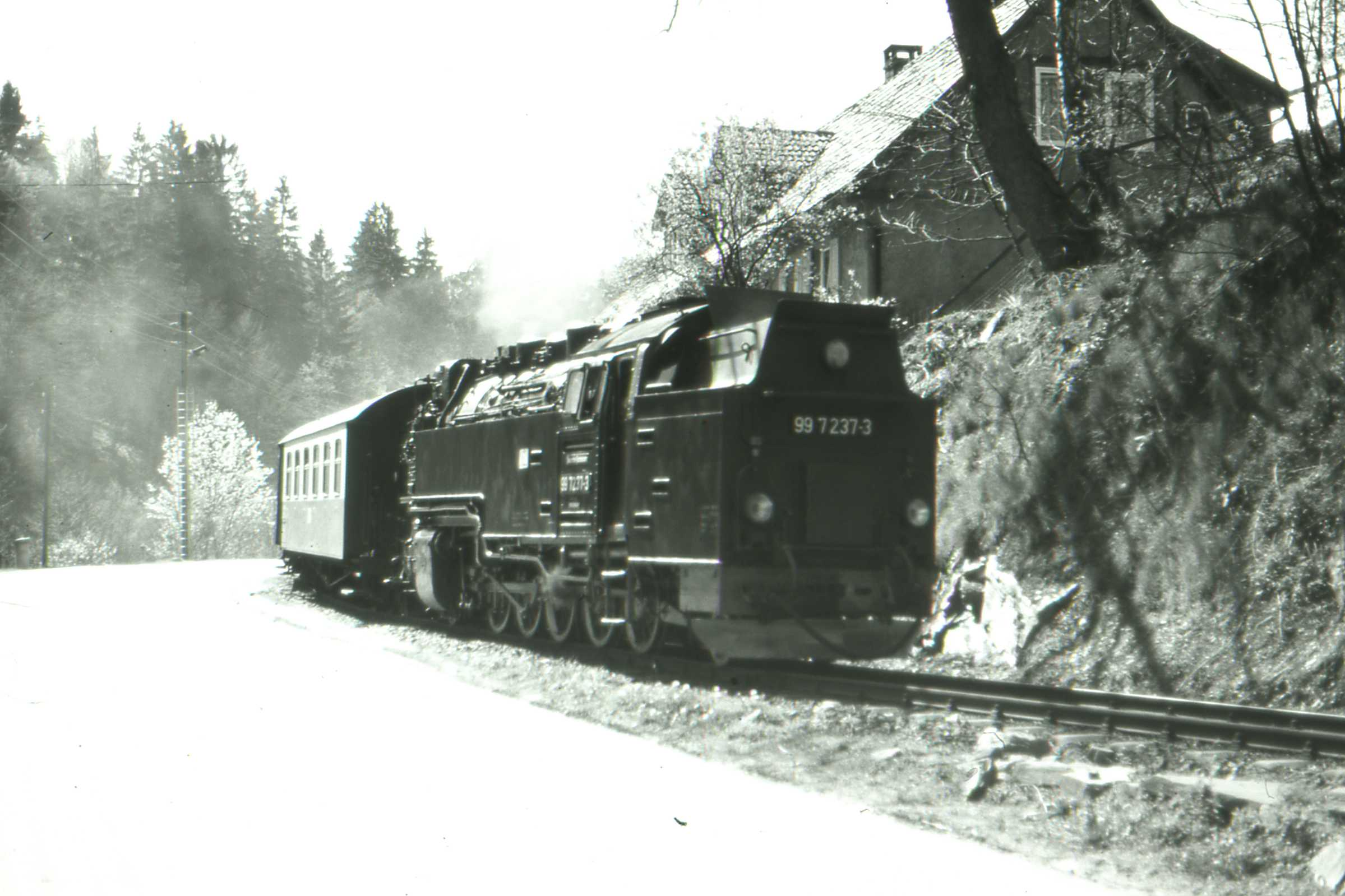 Die Selketalbahn bei Maegdesprung. The train is travelling downhill towards Gernrode. At this point, the railway runs alongside the road. I think that this section did not allow suffiient clearance for Rollbock wagons for Silberhuette to come up from Gernrode and thus coal had to come up from Nordhausen to Stiege and be turned in the special loop there for transfer to the Selketalbahn.